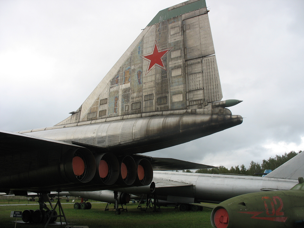 Engines of a Sukhoi T-4, photographed at the Central Air Force Museum, Monino.